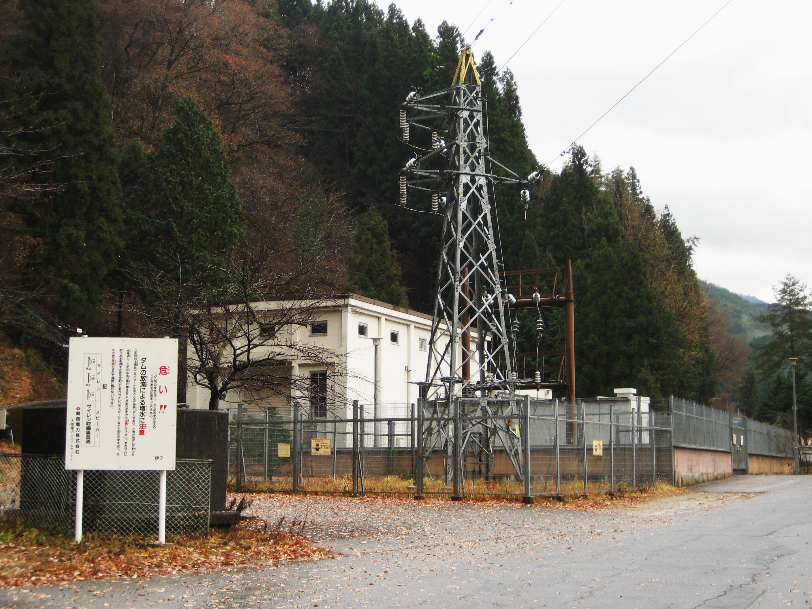 Takō power station.